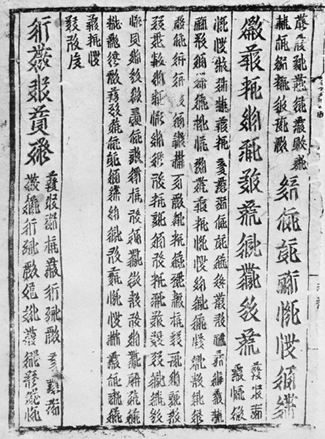 Page from a 12th century printed edition of the Tangut translation of Suntzu's Art of War. Recovered from Kharakhoto by Aurel Stein in 1914, and now held at the British Library.